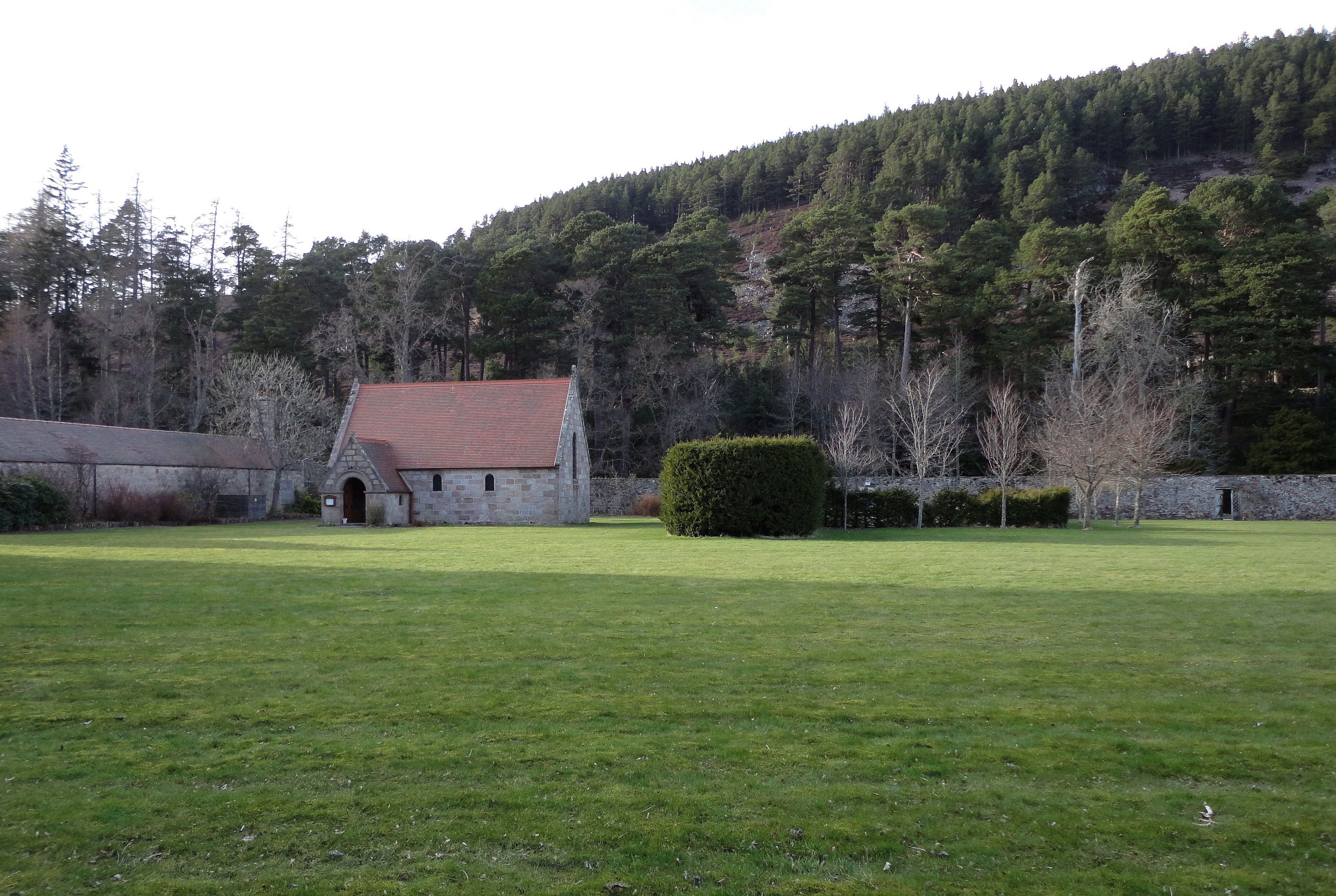 Braemar, Mar Lodge Estate, St Ninian's Chapel - setting within the Mar Lodge Estate